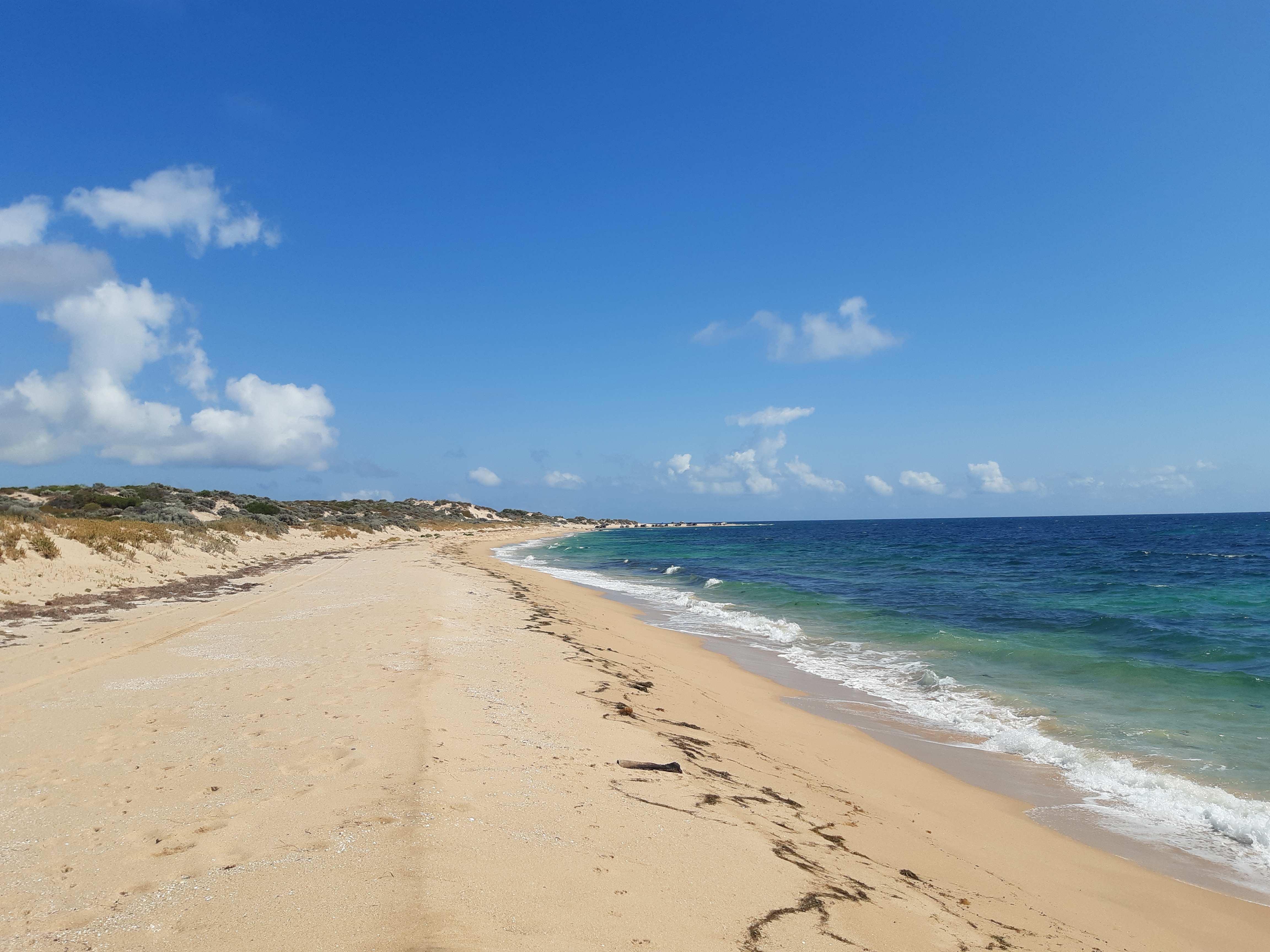 Tims Thicket Beach, part of Yalgorup National Park. Looking south from the end of the beach access at Tims Thicket Road.